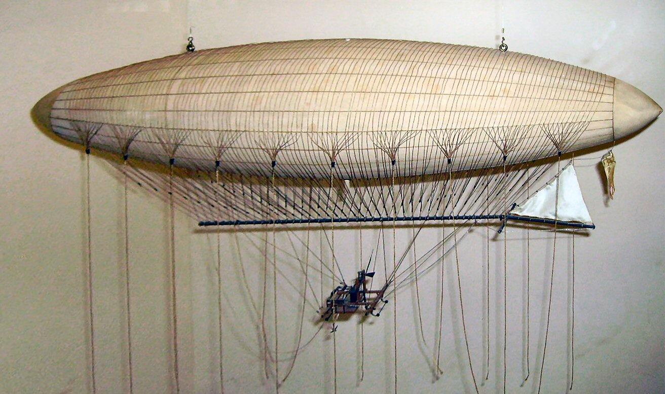 Taken by User:Mike Young at the London Science Museum